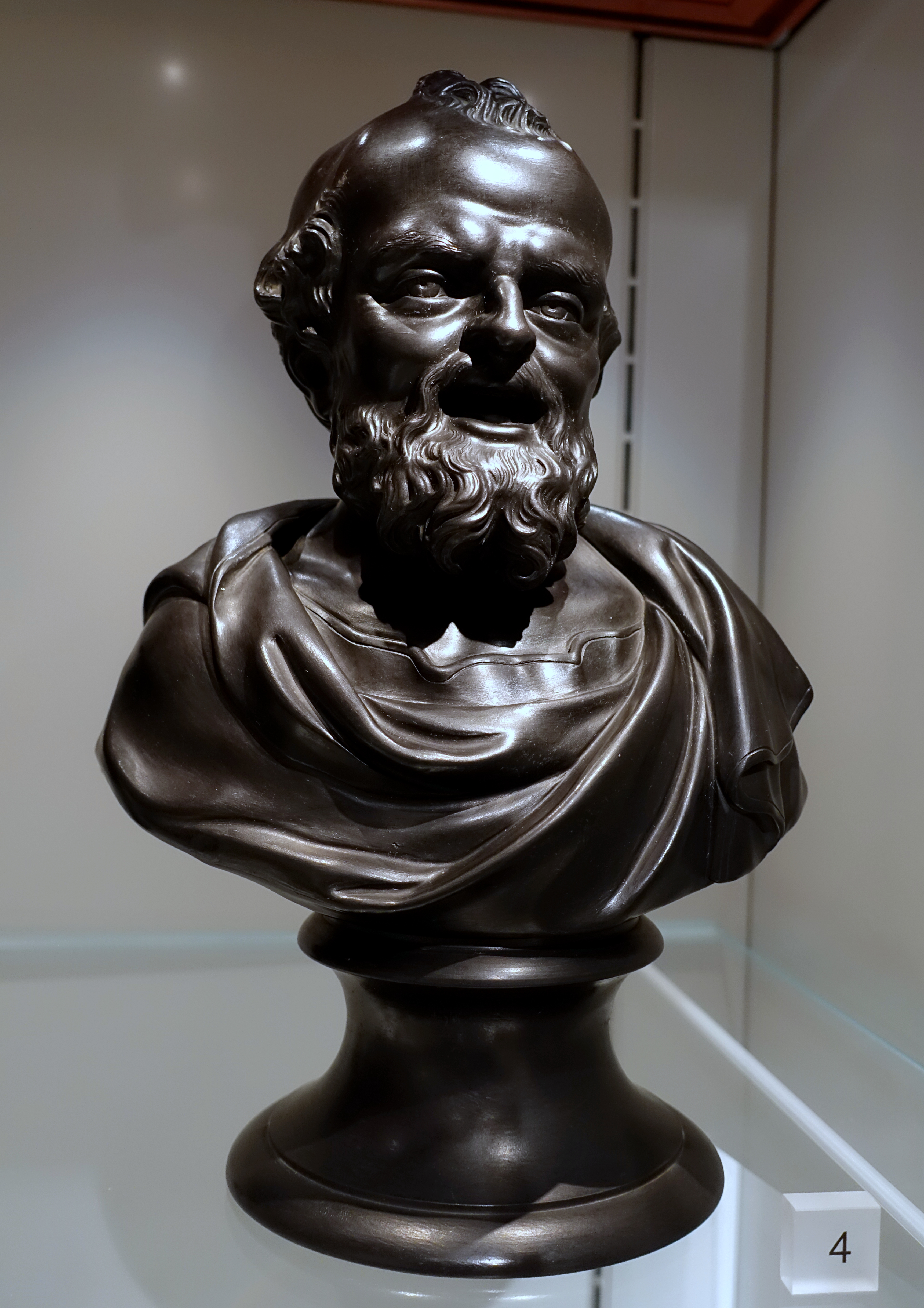 Exhibit in the Wedgwood Museum - Barlaston, Stoke-on-Trent, England.